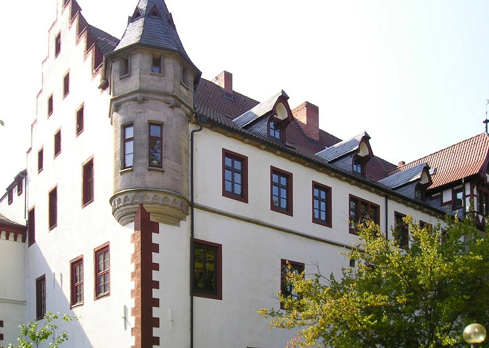 Castle Schloss Elisabethenburg in Meiningen, Germany, the „Bibrasbau“.